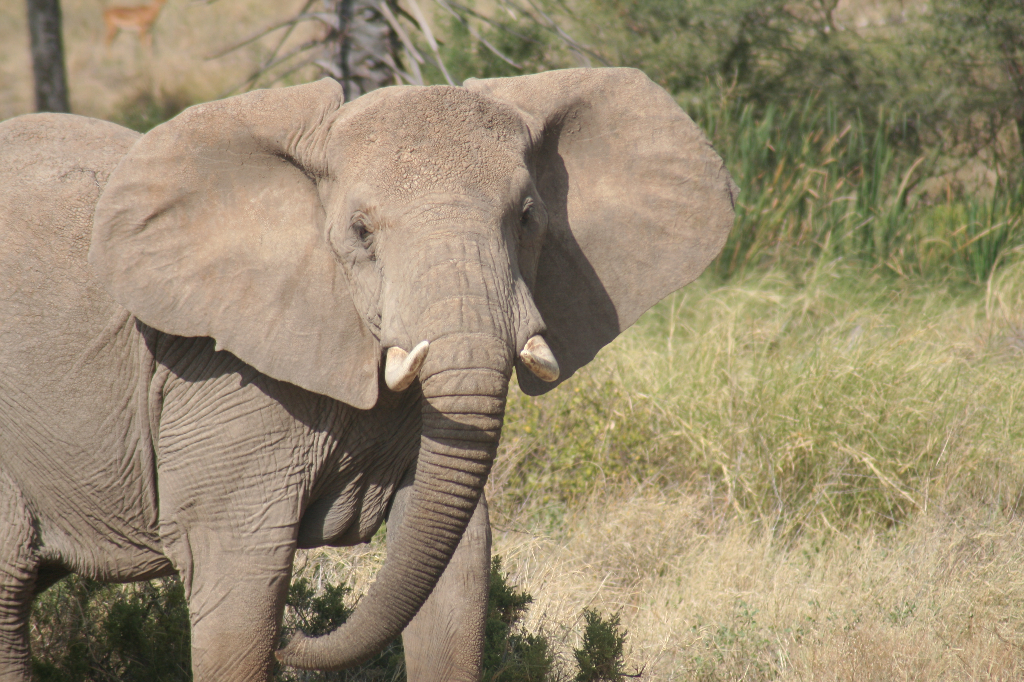 African Elephant. Masai Mara National Reserve, Kenya.